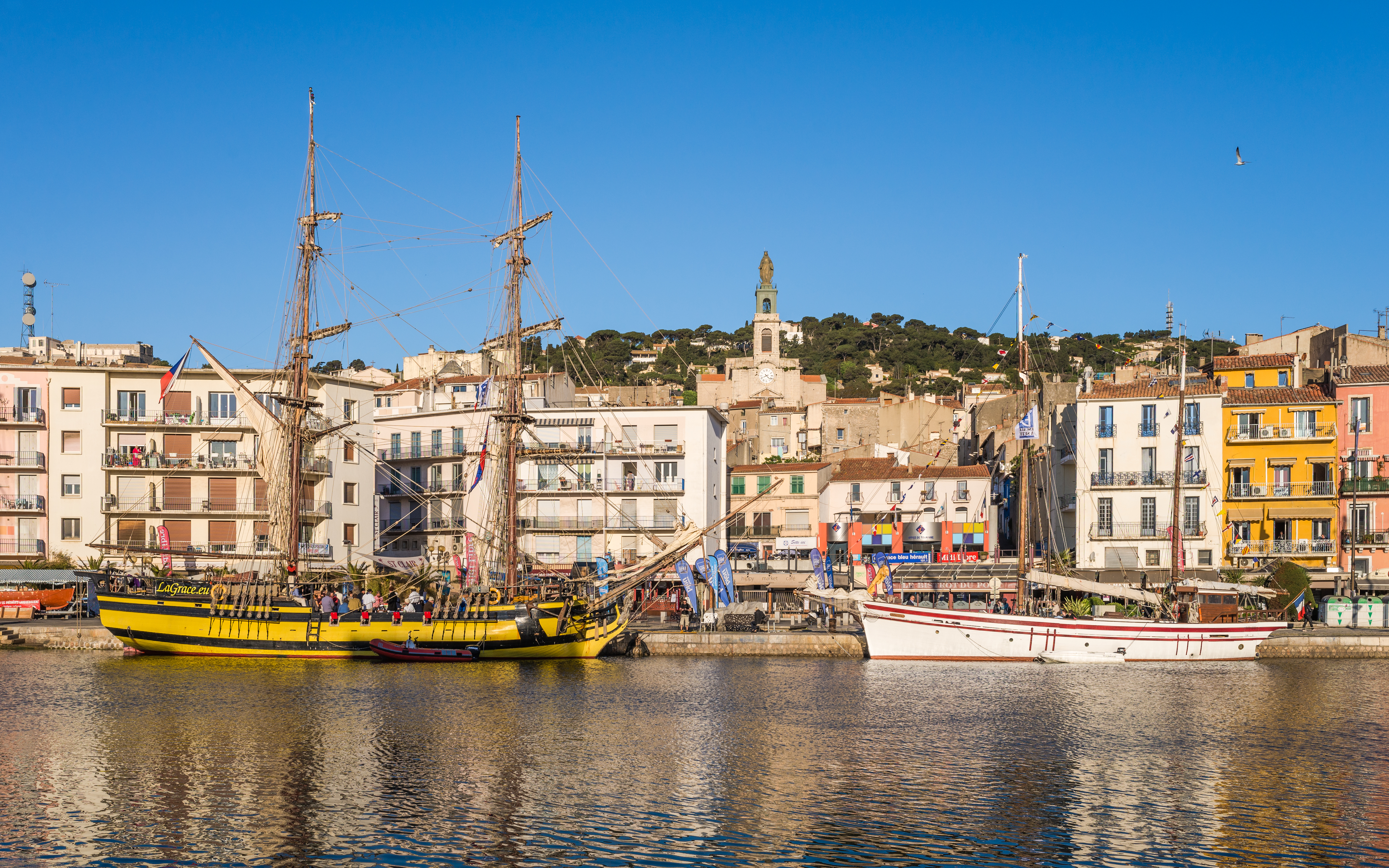 On the left La Grace (2010, Czech brig, replica of a brig from 18th century) and on the right the Chemins du Vent (1948, english coaster), moored at the Général Durand Embankment in front of the Saint-Louis Church (18th century). Sète, Hérault, France. .